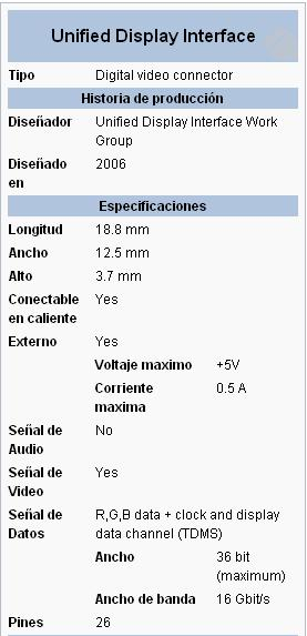 taula Unfied display interface